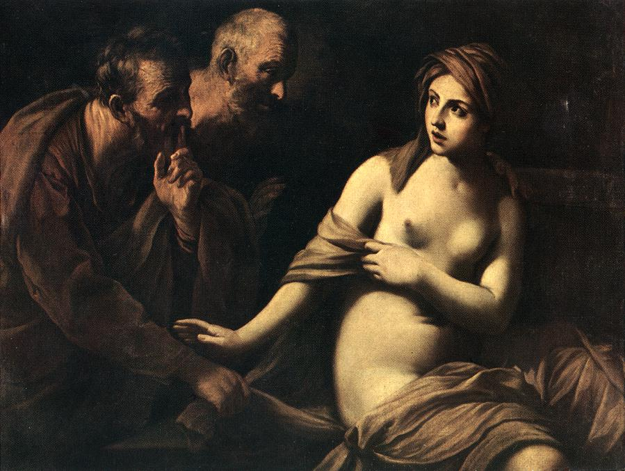 Copy of a painting by Guido Reni in the National Gallery, London